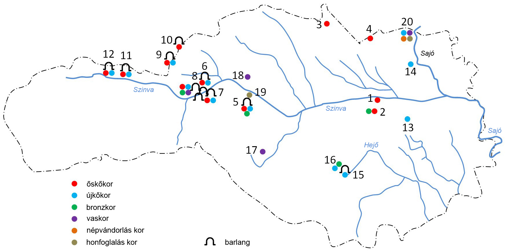 Archaeological sites in Miskolc (after J. Balogh and Á. Ringer)